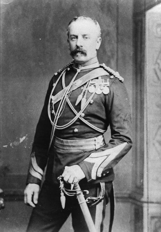 Victoria Cross Winners- Pre 1914. Portrait of Lord William Leslie de la Poer Beresford, awarded the Victoria Cross: Zululand, 3 July 1879.